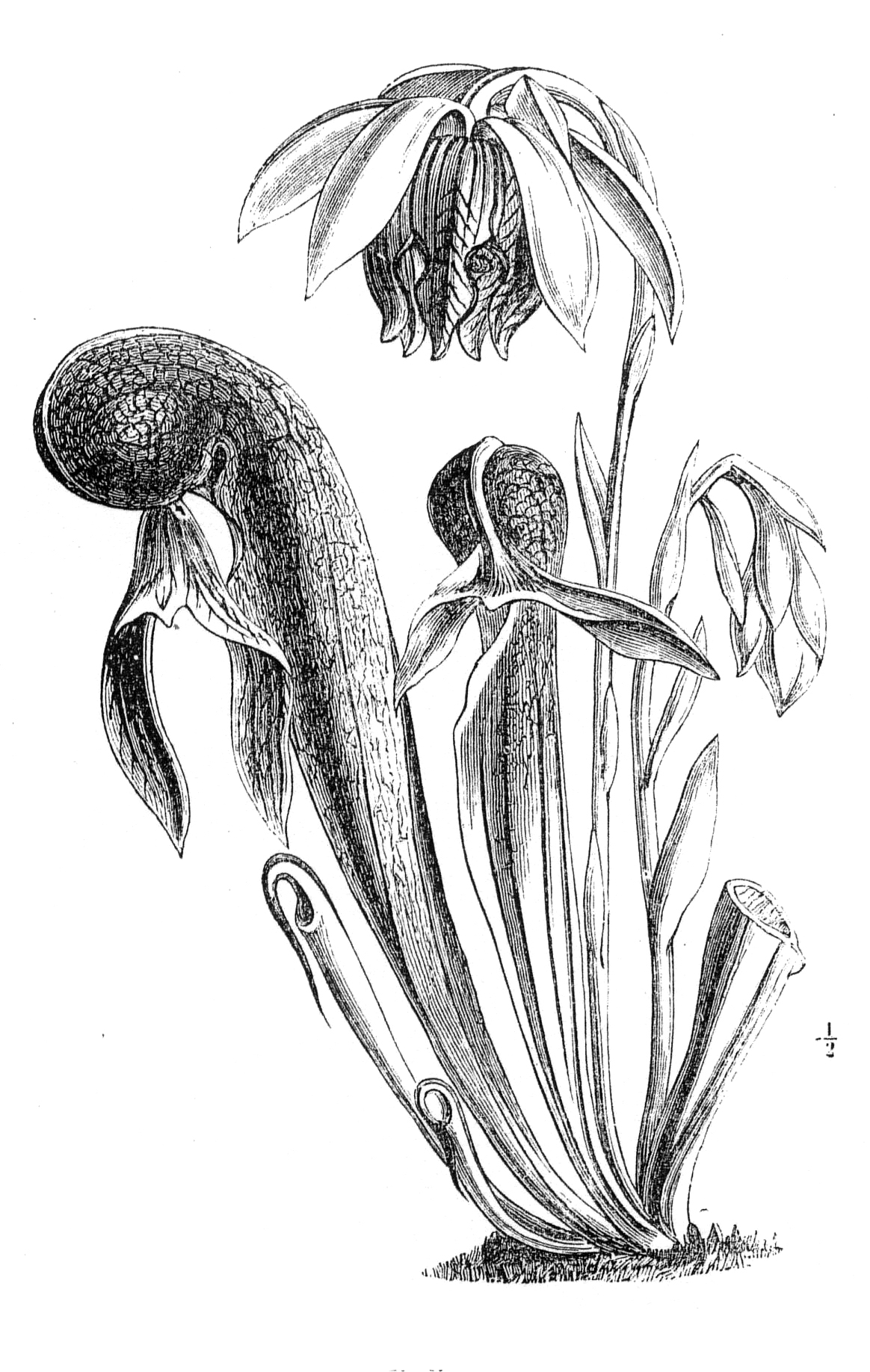 Darlingtonia californica Torr. (Sec. Bot. Magaz. t. 5920).